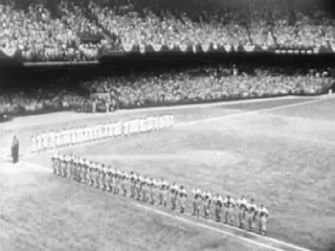 Shibe Park in Philadelphia, prior to Game 1 of the 1950 World Series. * Screen capture from the film located at: This movie is part of the collection: Prelinger Archives